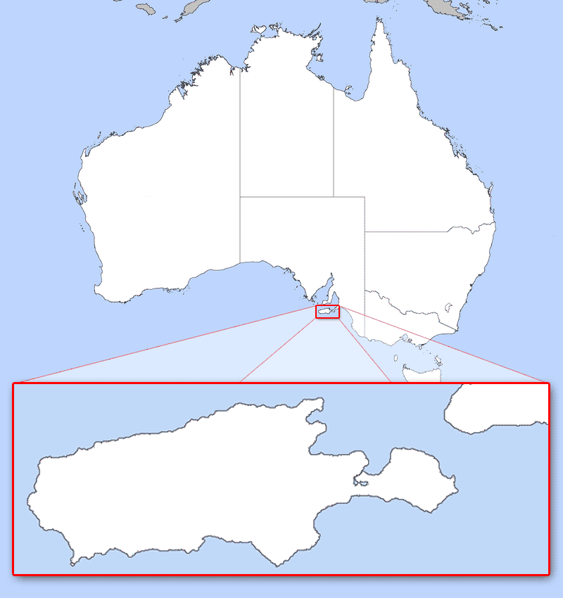 Developed from Image:Australia_location_map.png and Image:KangarooIslandMap.png, by user:Talionis, using Adobe Photoshop. It is a derivative work of two files with GFDL licensing.